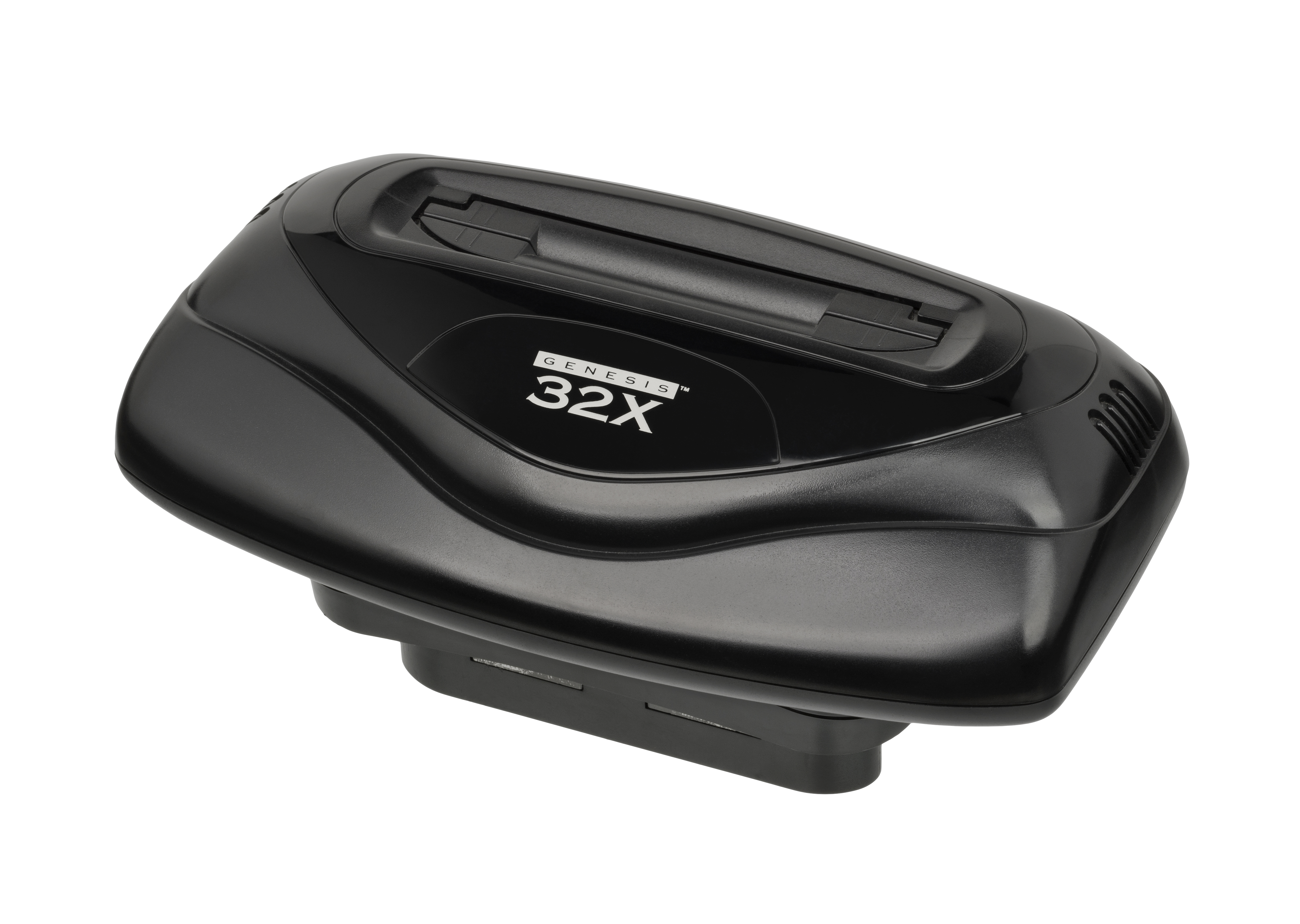 The Sega 32X, a short-lived add-on for the Sega Genesis/Mega Drive video game console that was introduced in 1994. This device added two 32-bit processors to the Genesis/Mega Drive and allowed for games with better graphics and more colors.